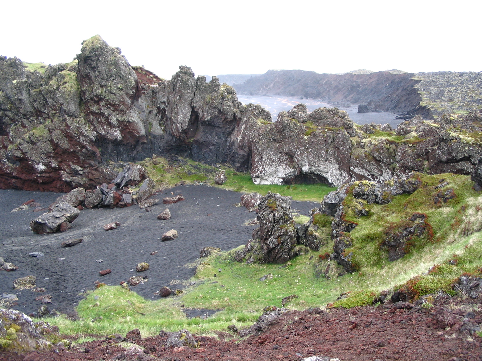 Dritvík, Snæfellsnes peninsula